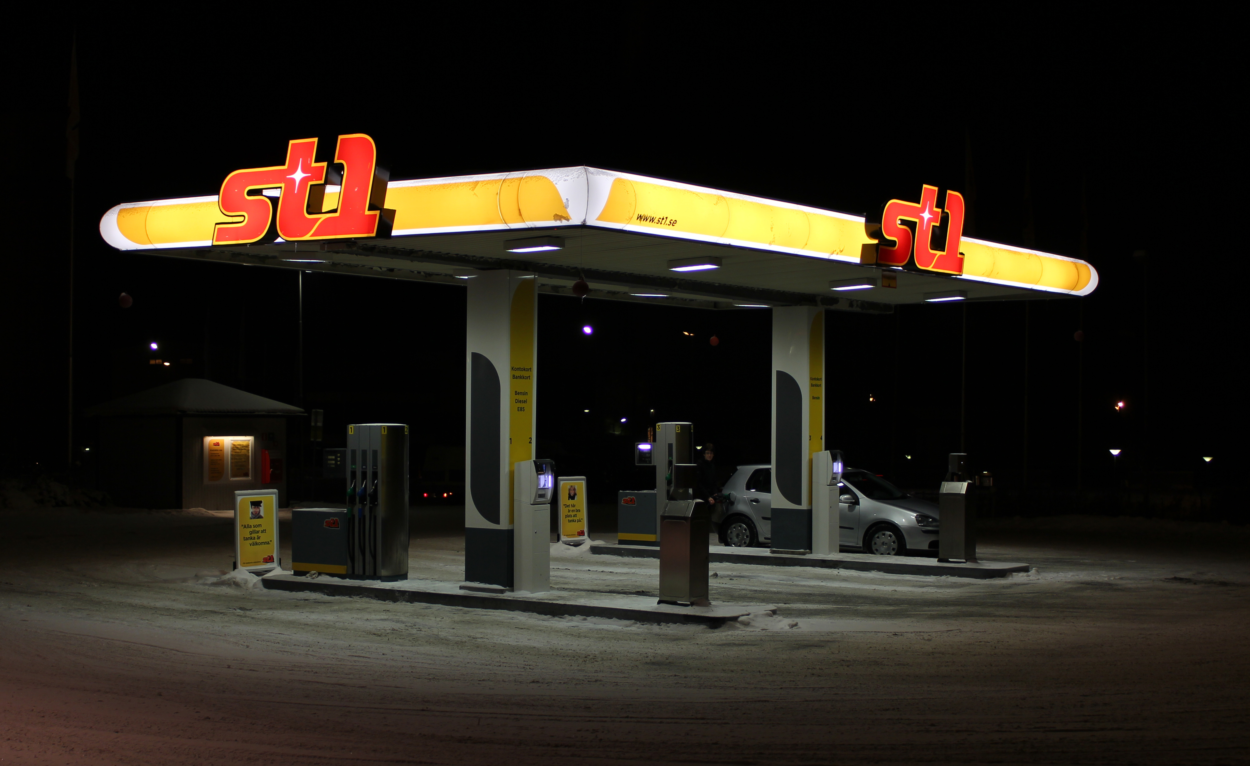 Filling station ST1, Hedemora, Sweden.